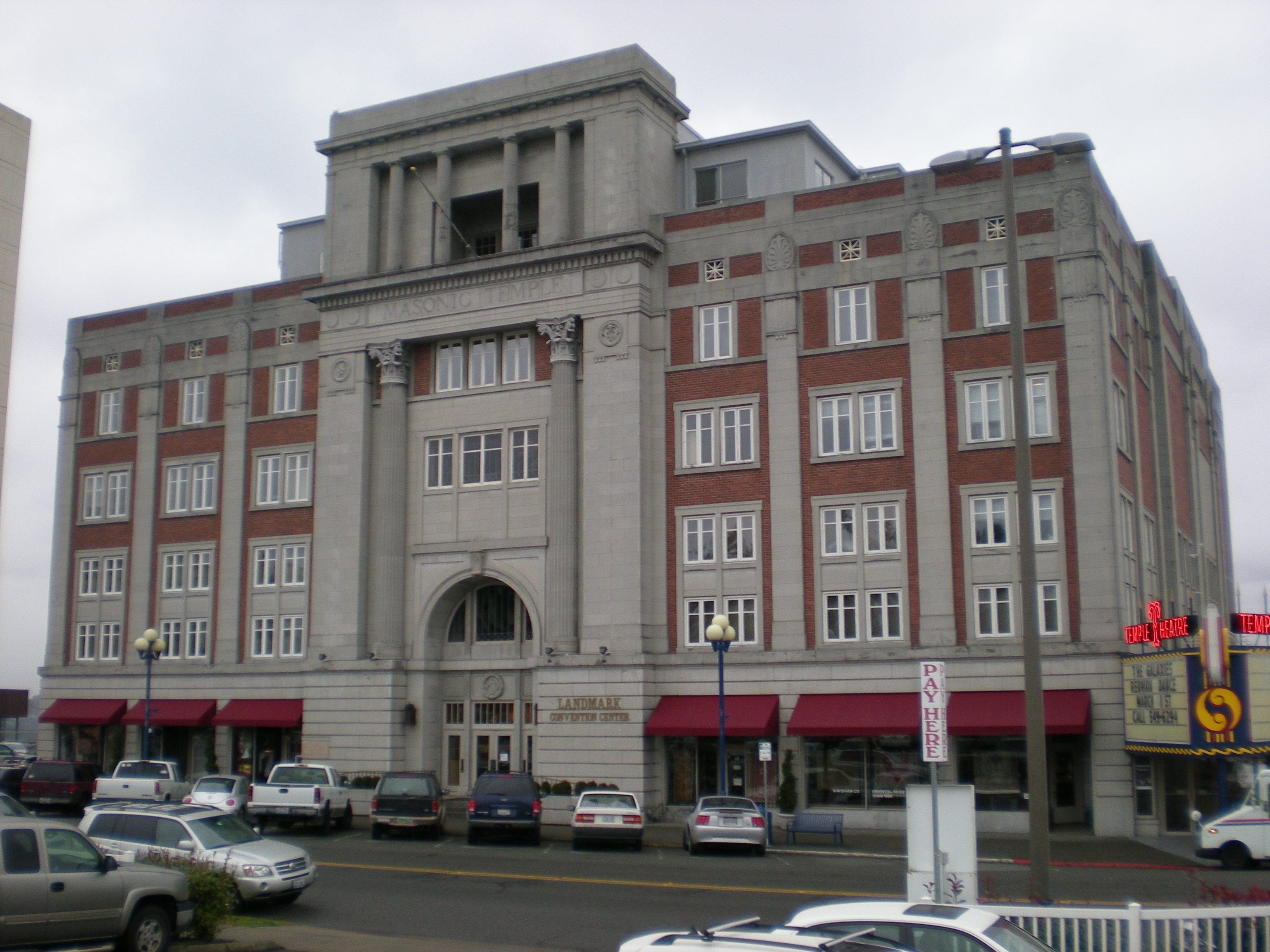 Masonic Temple Building-Temple Theater in Tacoma, Washington. Both the building itself and the Stadium-Seminary Historic District are on the National Register of Historic Places.